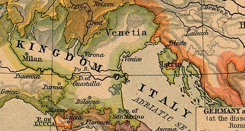 The Napoleonic Kingdom of Italy in 1806 after the annexation of the Venetian Province on 1 May.